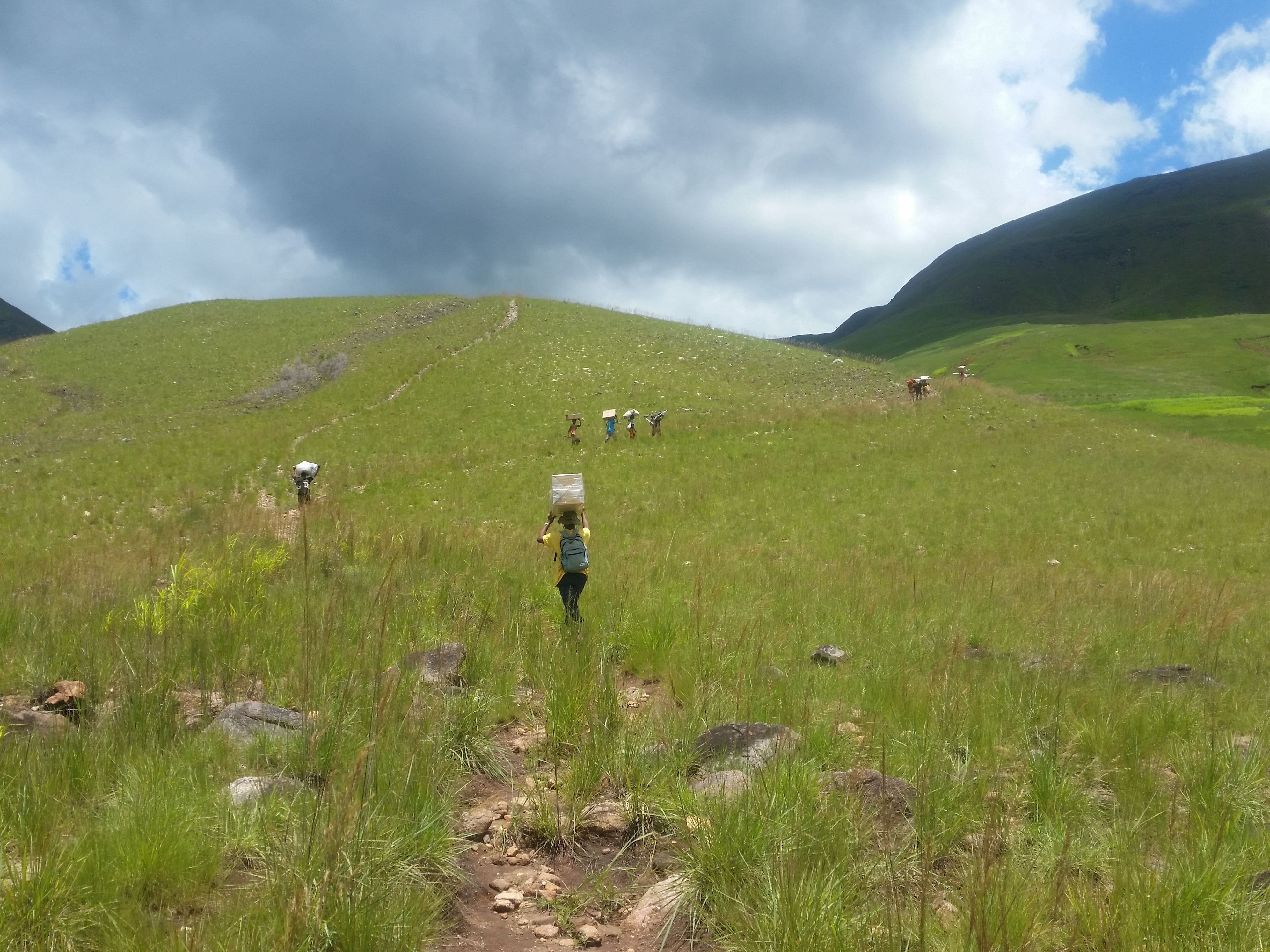 Walking for 12h to go to the Municipal town of Andrembesoa This is an image with the theme "Play" from: Madagascar